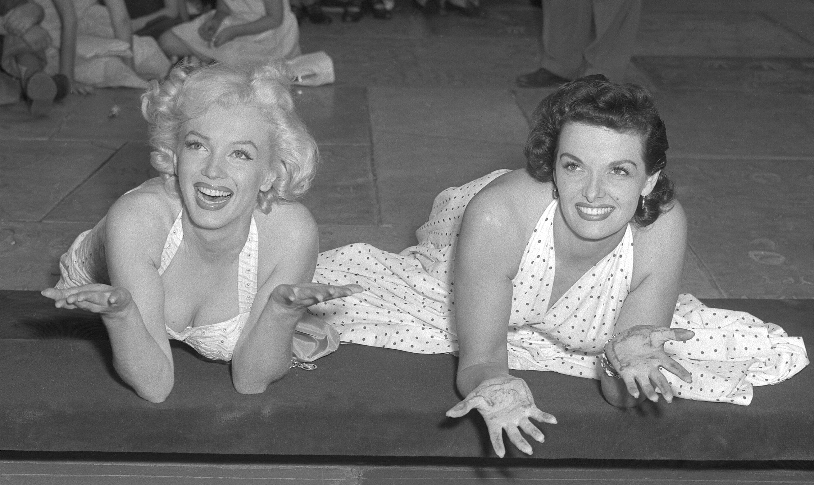 Marilyn Monroe and Jane Russell putting handprints in wet concrete at Chinese Theater in Los Angeles, Calif., 1953